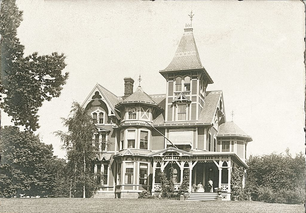 Dr. Mary B. Moody House with Dr. Moody and her husband on the porch. (Since he died in 1902 and she died in 1919, this photo must be 1902 or earlier).